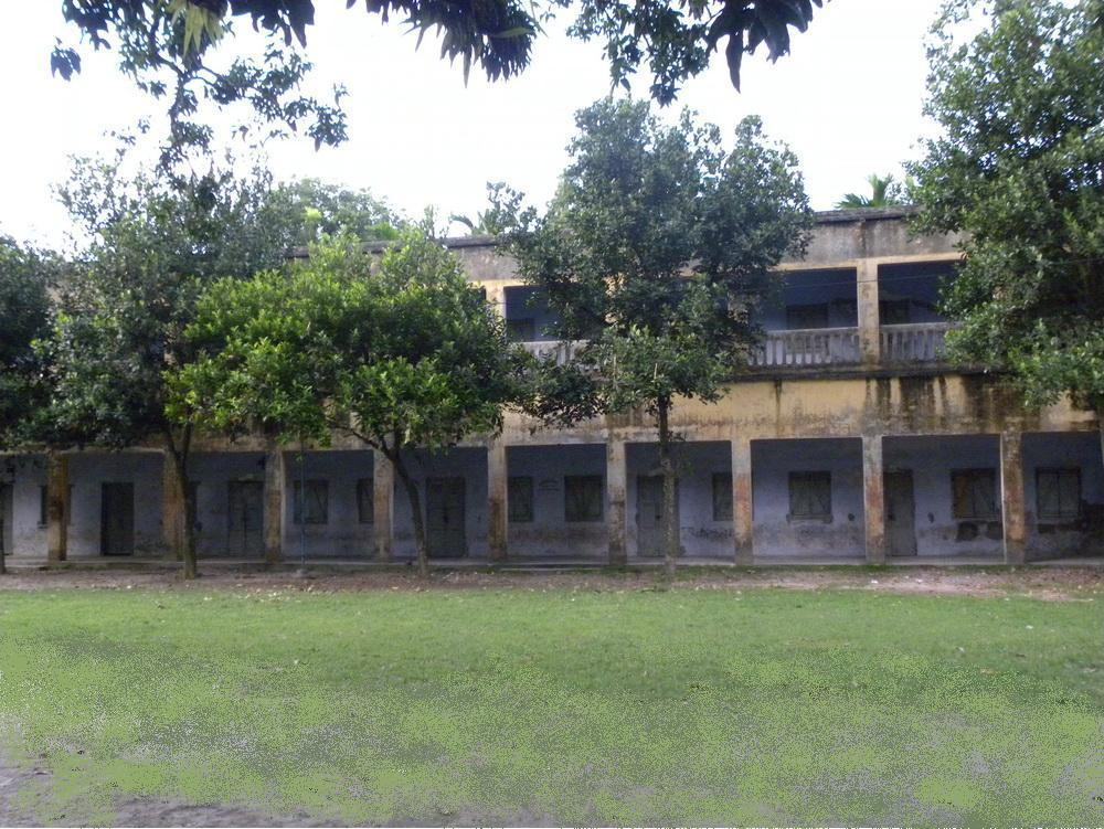 One of the oldest educational institute (est 1861) in Chatmohar, Pabna. This is a common view of the academic building of the High School.